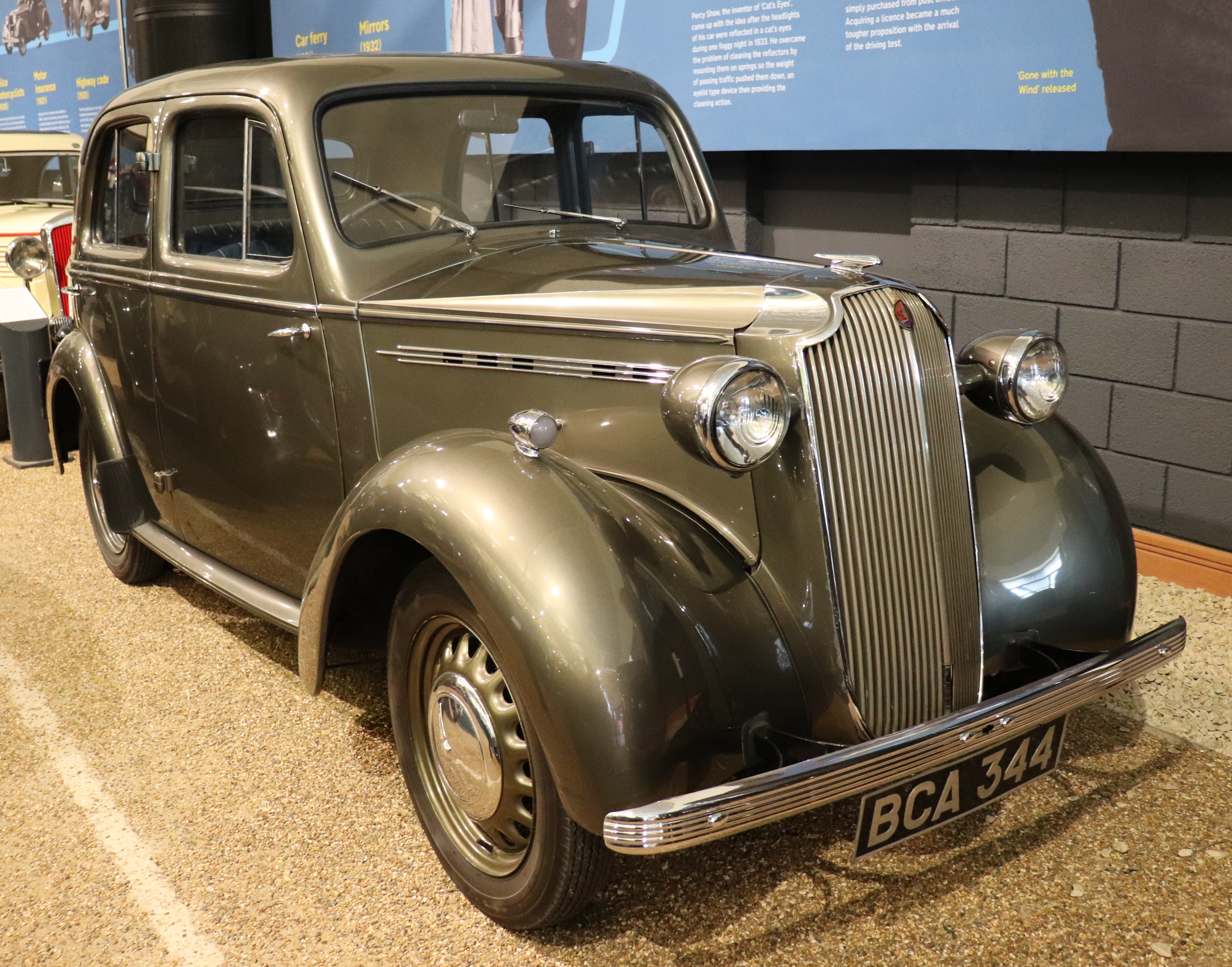 1937 Vauxhall H-type Ten 1.2 Front Taken at the British Motor Museum, Gaydon